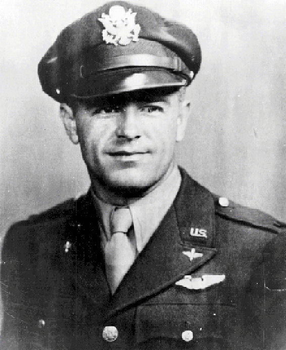 Lt. William Harrell Nellis, the official namesake of Nellis AFB, Nev.